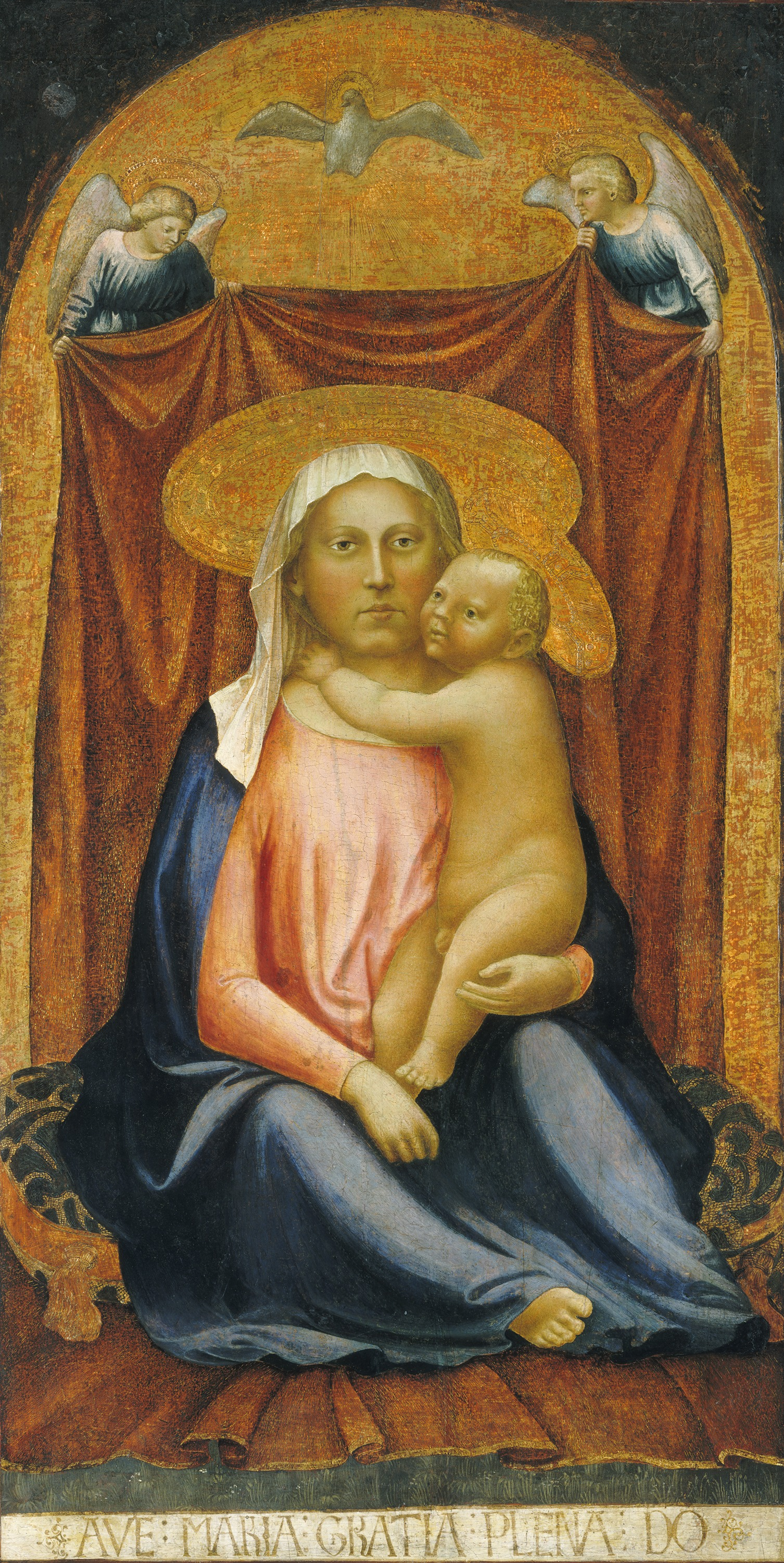 Masaccio. Madonna and Child. 1424-25, Washington NGA (After a thorough restoration)